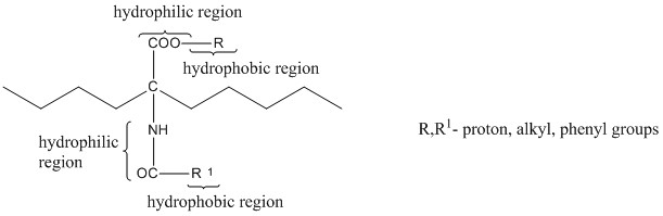 This image breaks down the possibly solvent affinity effects based on the different substituents of the monomer